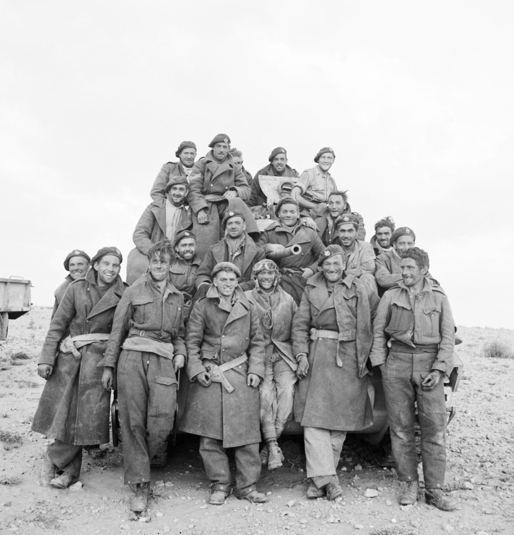 The British Army in North Africa 1941 Men of the Royal Tank Regiment pose on and around a Matilda tank, 22 December 1941.